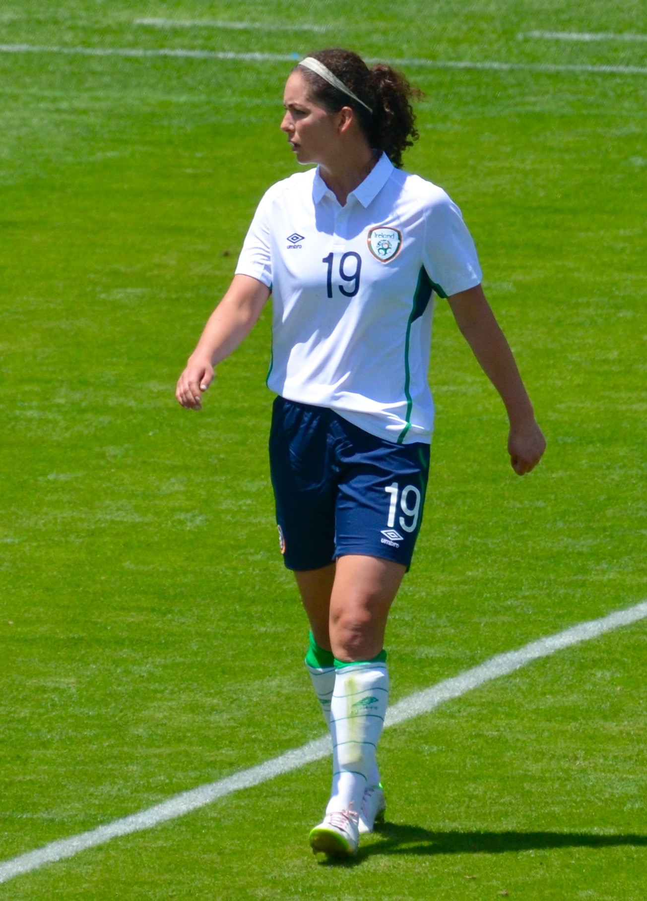 Fiona O'Sullivan playing for the Republic of Ireland in San Jose, California on 10 May 2015.